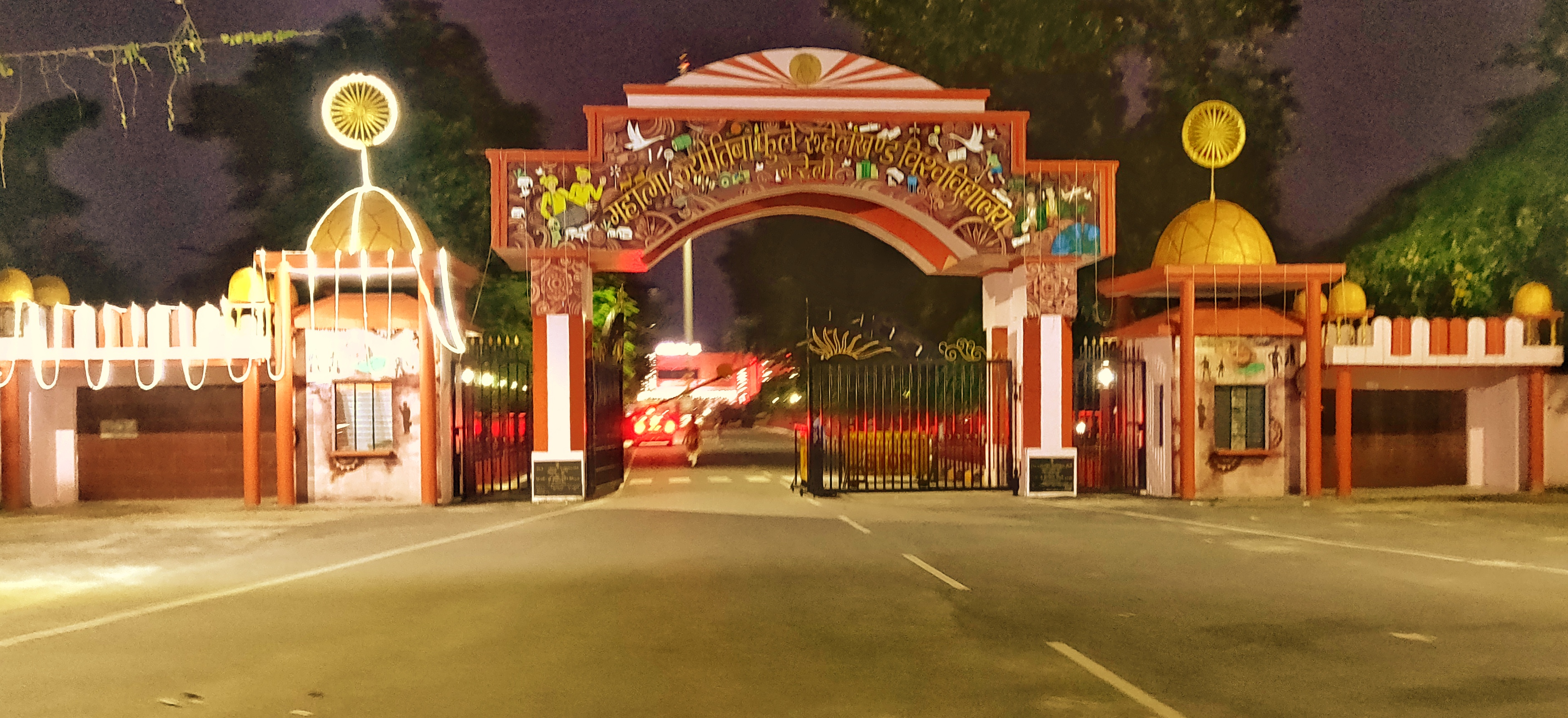 MJP Rohilkhand University Gate, Bareilly